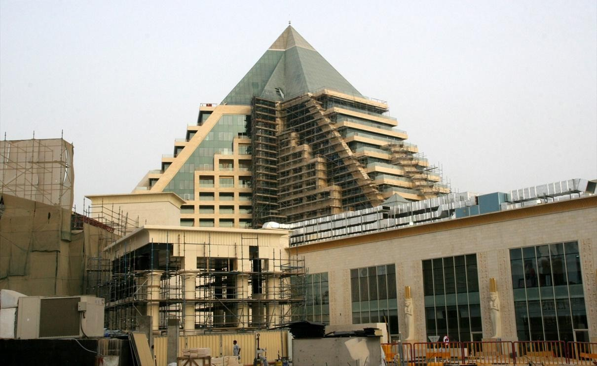 This is a photo showing the construction of Raffles Dubai in Wafi City, Dubai, United Arab Emirates on 5 June 2007.